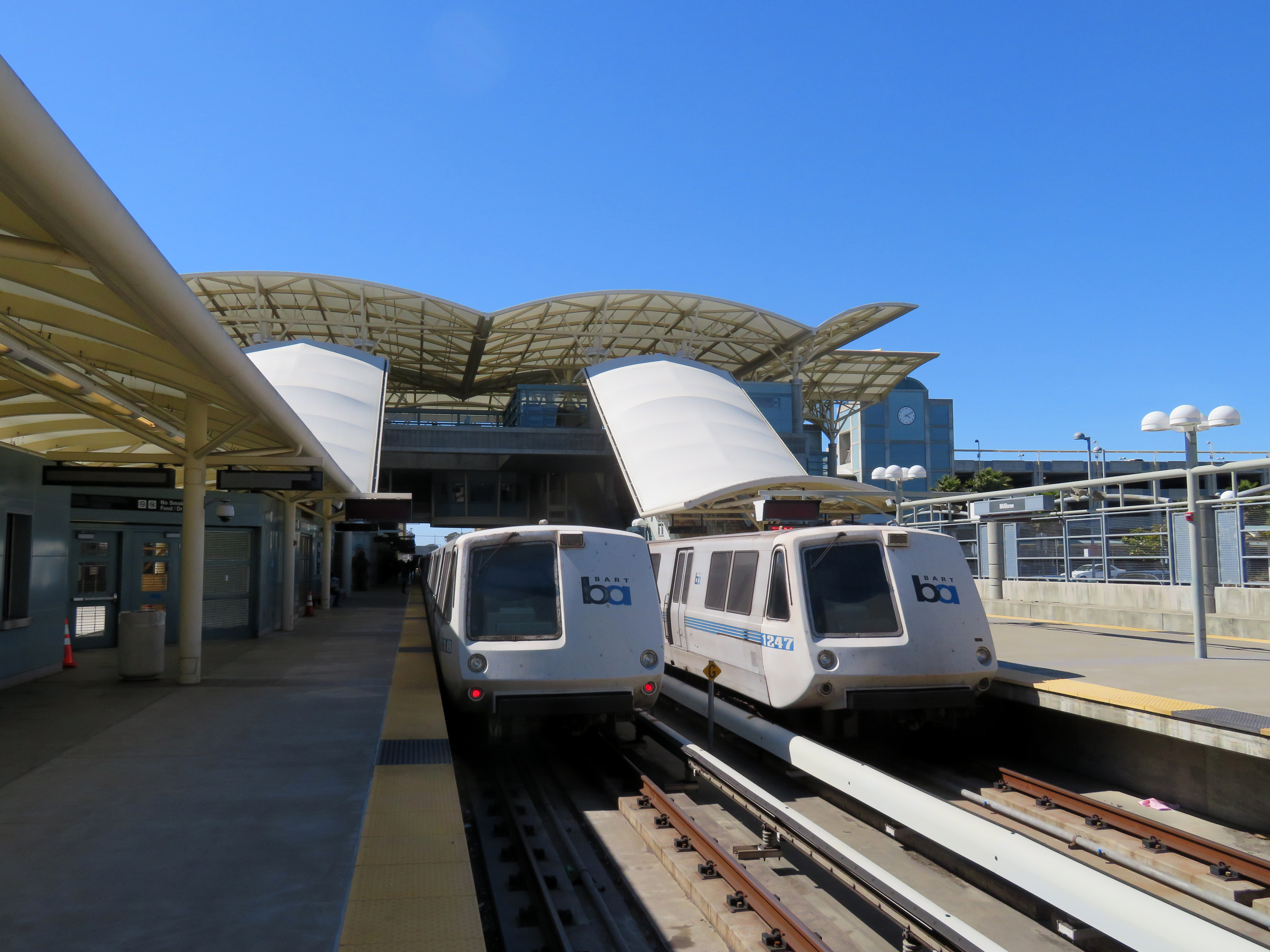 Two BART trains at Millbrae station in June 2018. The train at left is in revenue service; the train at right is out of service.